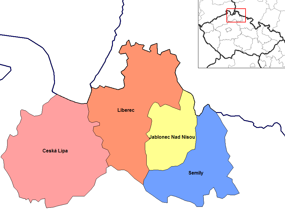 Map of the districts of Liberec region of the Czech Republic. Created by Rarelibra 15:12, 2 January 2007 (UTC) for public domain use, using MapInfo Professional v8.5 and various mapping resources.